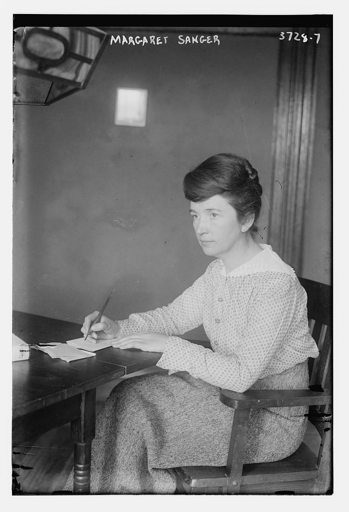 Margaret Higgins Sanger (September 14, 1879 – September 6, 1966) in 1916 facing left with pen in hand